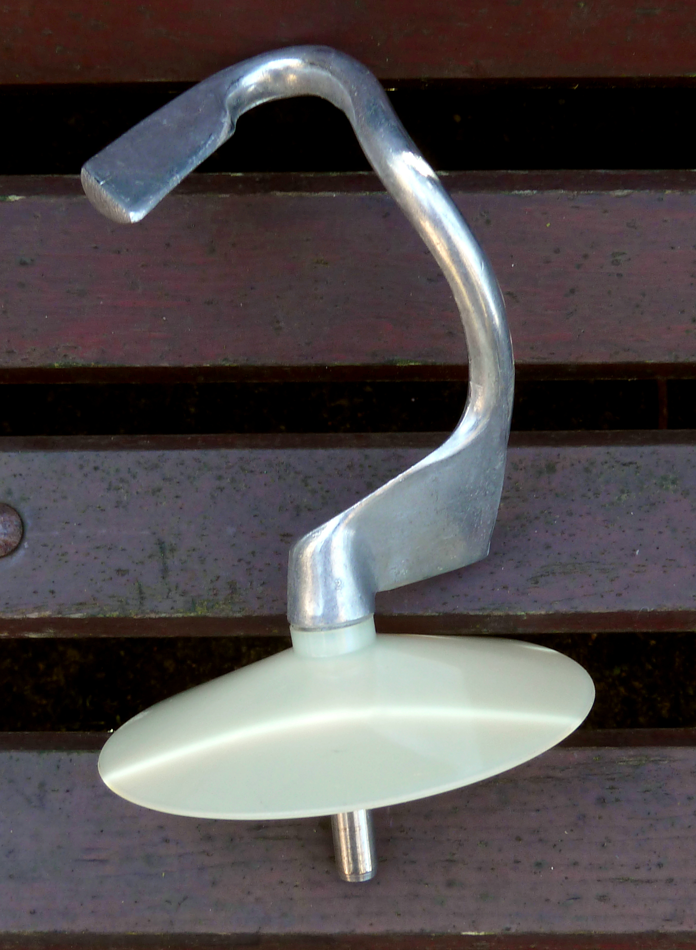 Kenwood Chef aluminium mixer tools for model a701a, made in the 1980s. Showing dough hook.